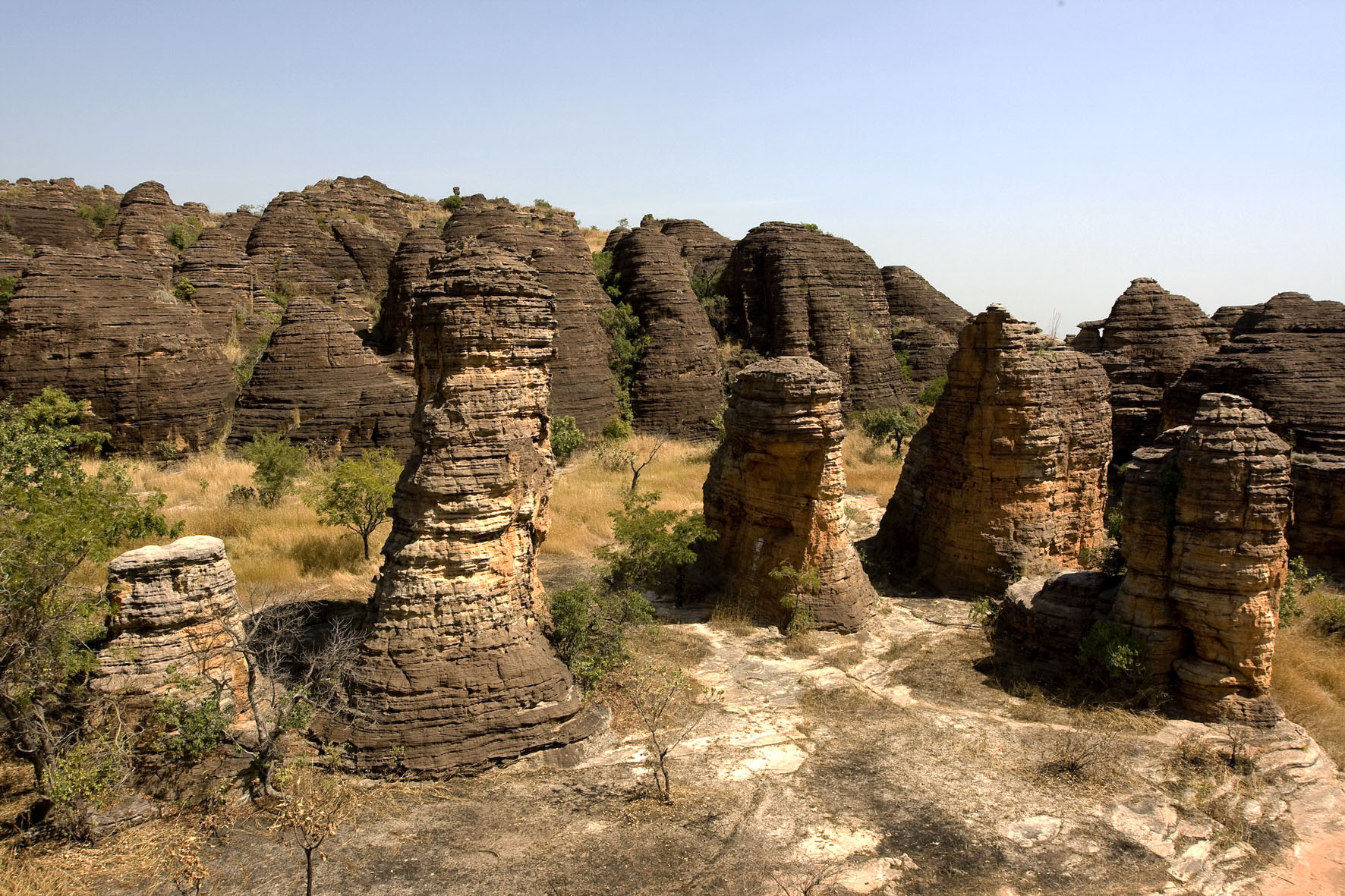 The rock formations called Domes de Fabedougou located in Bérégadougou Department of Comoé Province in southern Burkina Faso.